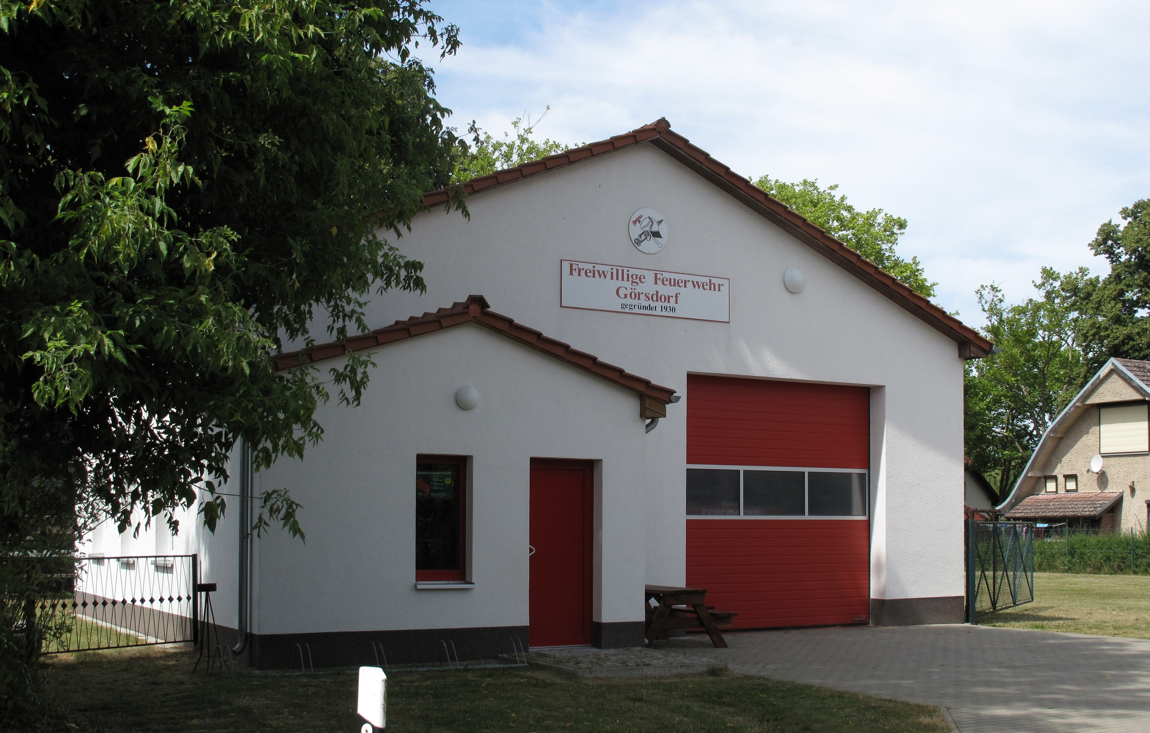 Volunteer fire department in Görsdorf, founded in 1930. The village Görsdorf is a part of the town Storkow, District Oder-Spree, Brandenburg, Germany. The village was first mentioned in 1209 and had on January 1, 2013 370 inhabitants. It is situated in the Dahme-Heideseen Nature Park.